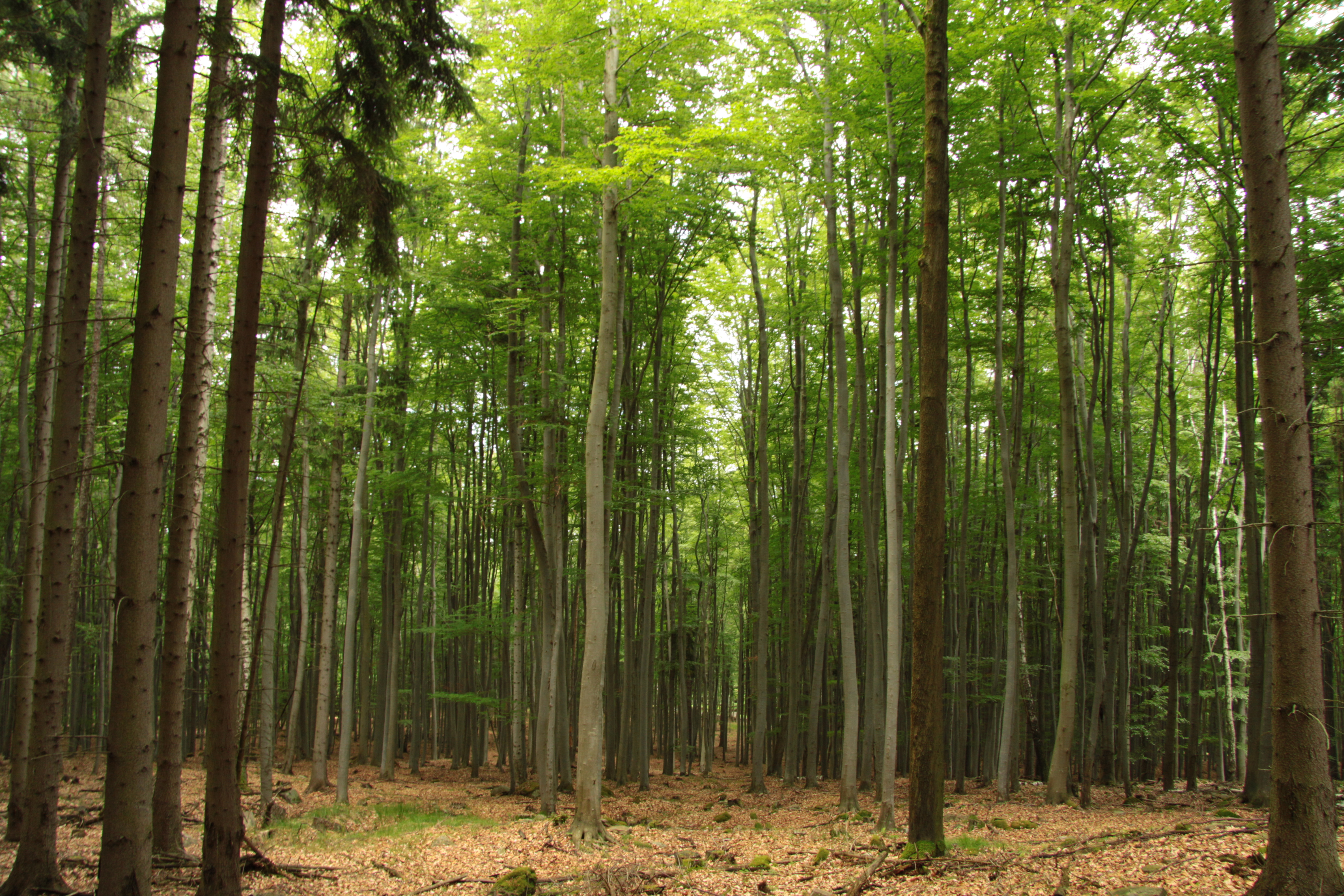 Natural monument U Piláta near Vitějovice village, Prachatice District, Czech Republic - Google Maps - Google Earth